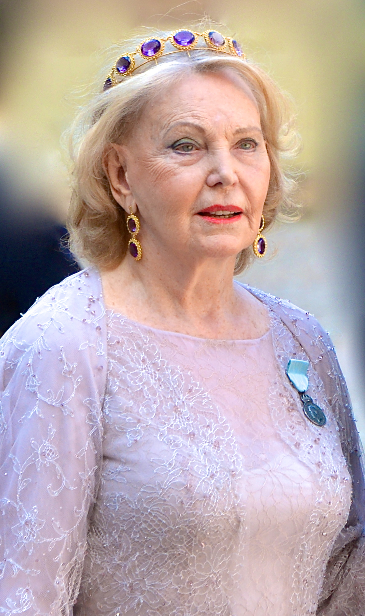 Marianne Bernadotte on the way to the castle church at the Royal Palace in Stockholm before the wedding between Princess Madeleine and Christopher O'Neill June 8, 2013.